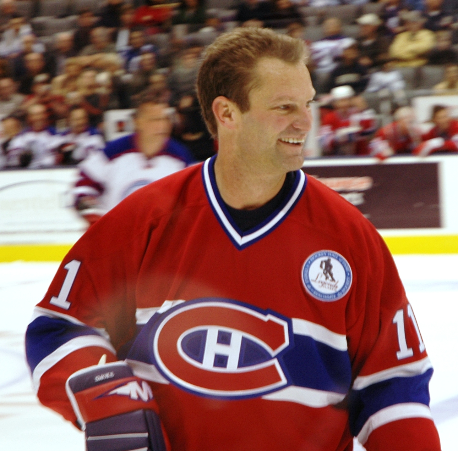 Kirk Muller played with Montreal Canadiens Alumni at the Legends Classic in Toronto